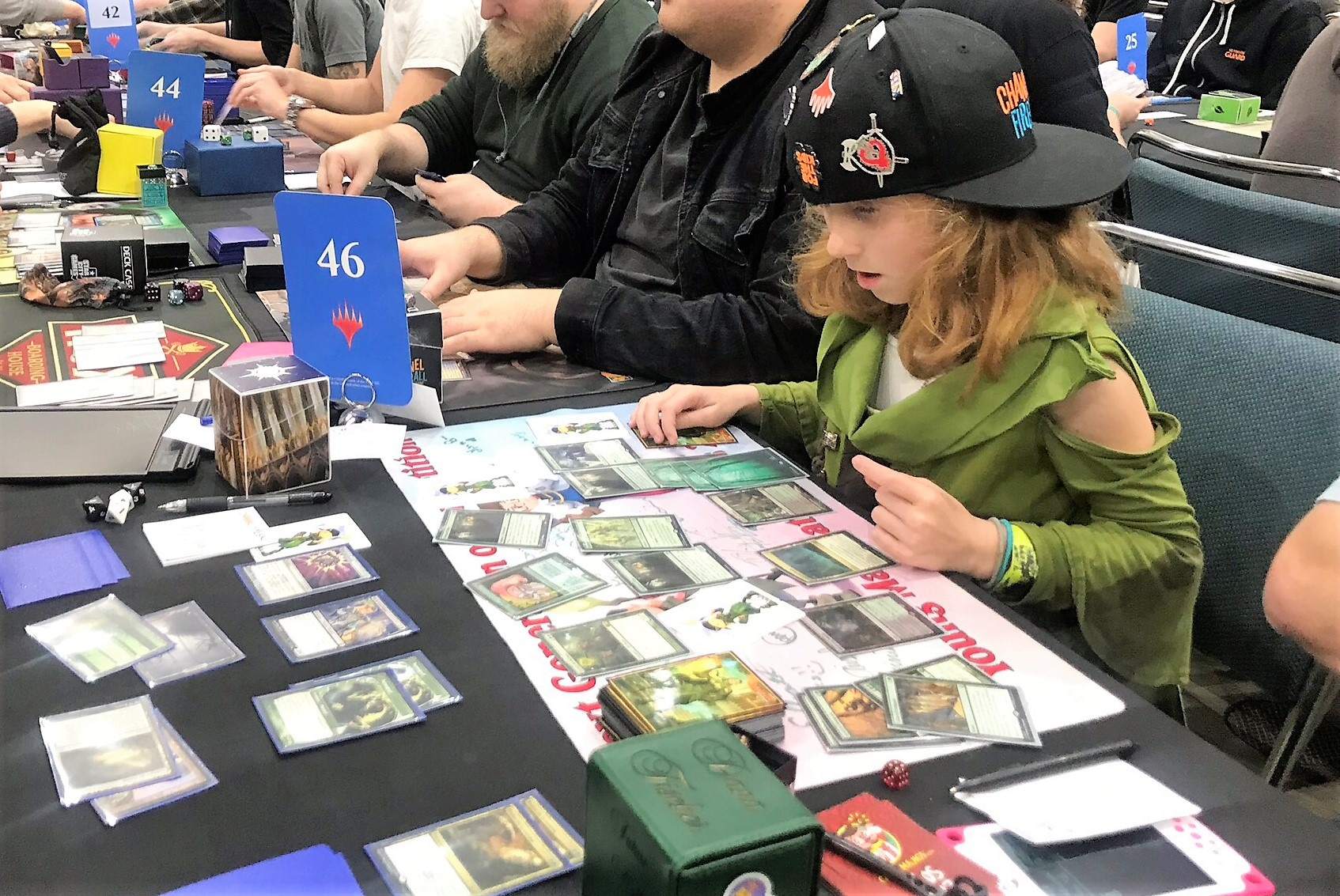 Young competitive Magic: the Gathering player Dana Fischer at Grand Prix Los Angeles in 2019.